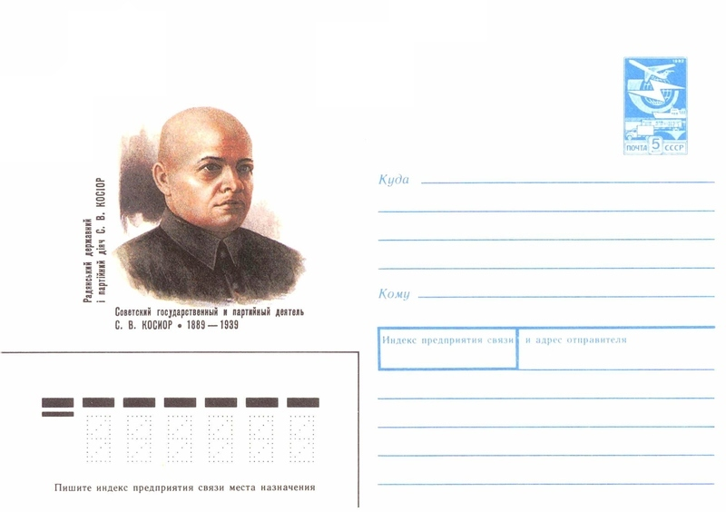 1989 Soviet postal cover with portrait of Stanislaw Kosior.